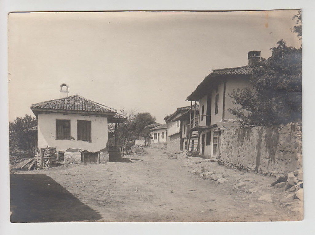 Bajkovo in WWI